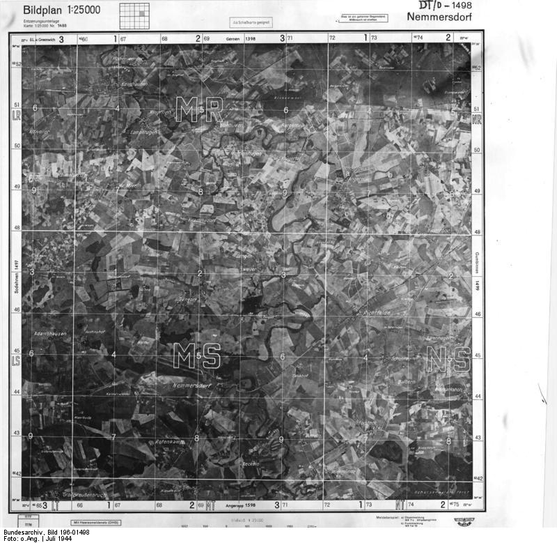 Nemmersdorf Information added by Wikimedia users.